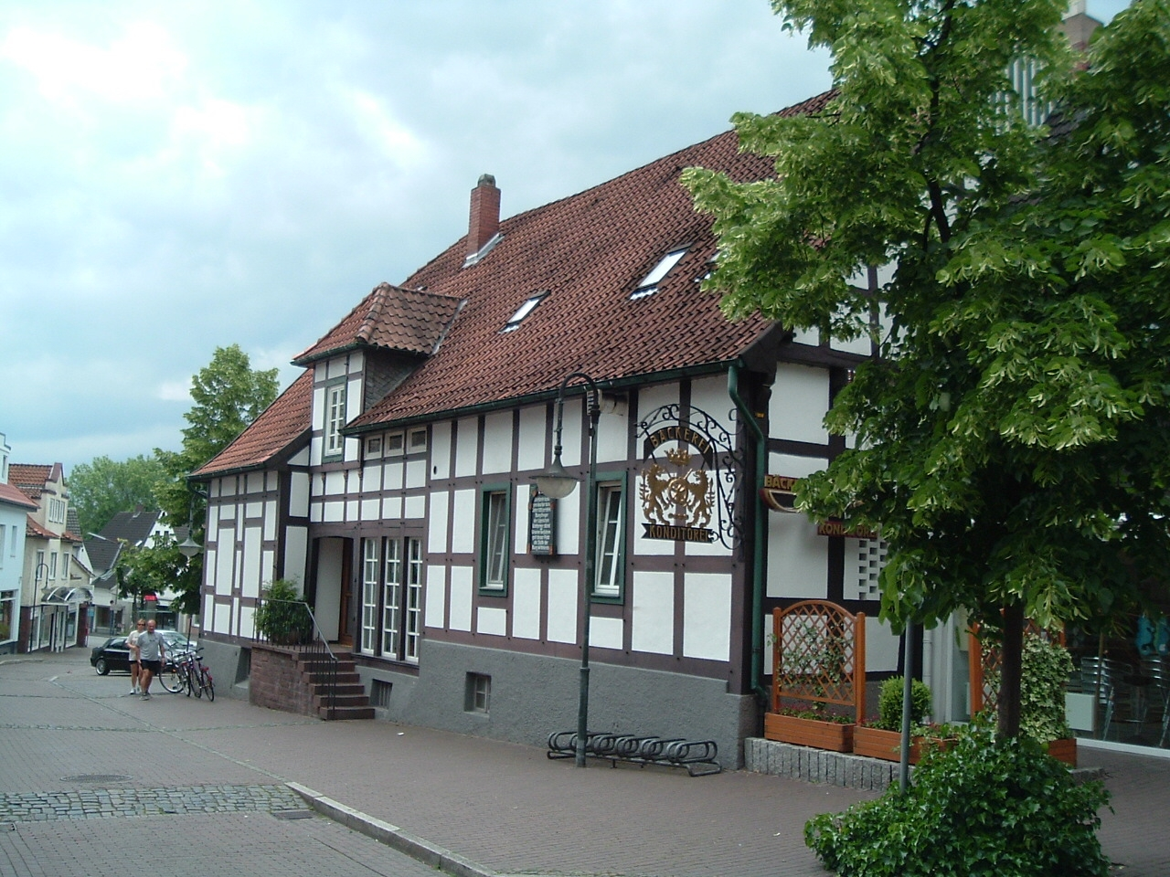 House in town of Enger, District of Herford, North Rhine-Westphalia, Germany. Till 1305 this was the place of Enger Castle.